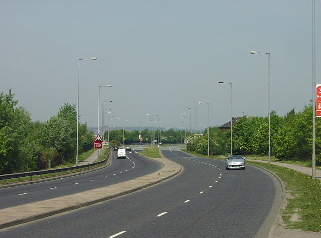 Centenary Way Part of the main access into Rotherham from the M1, this section is an upgrading of the old Canklow Road.